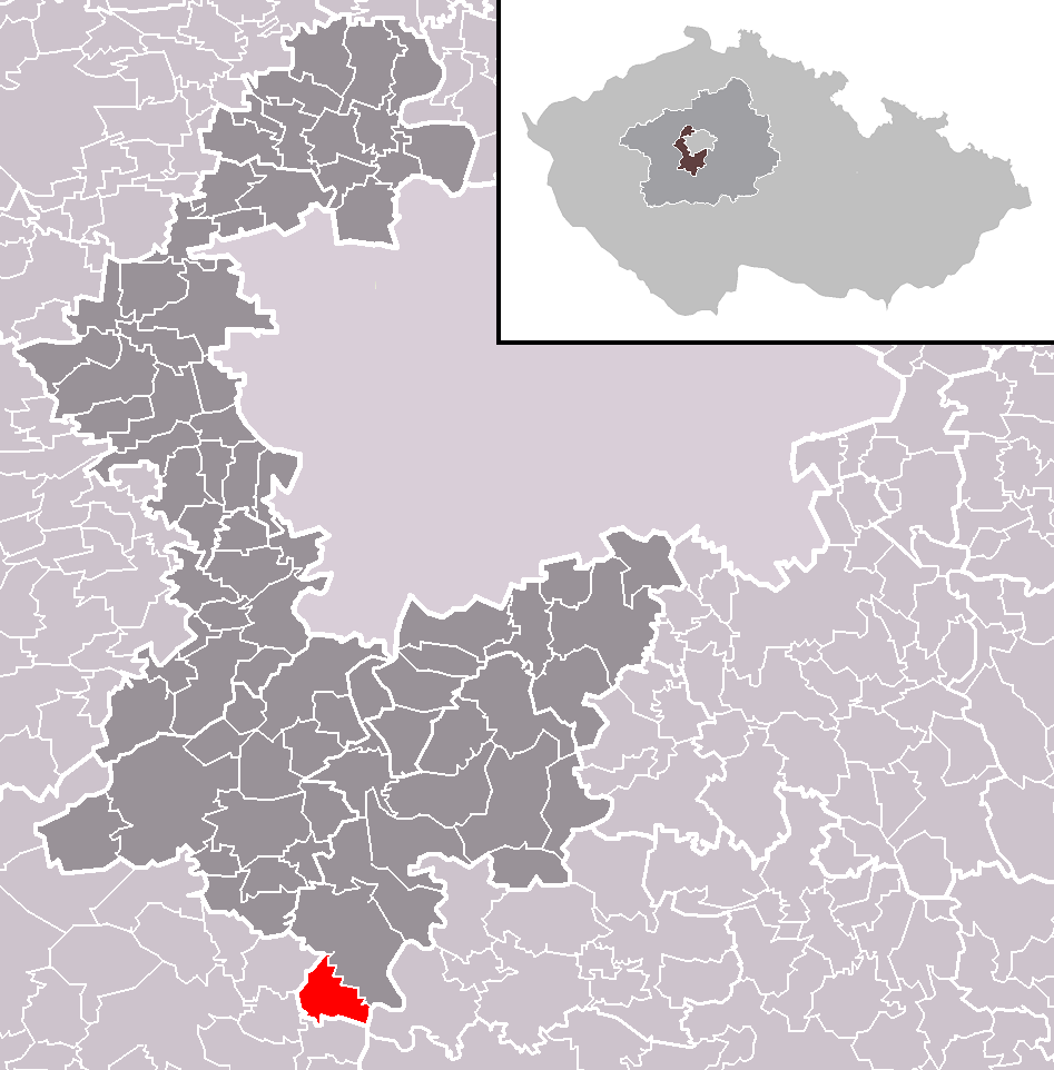 Location of Buš municipality within Prague-West District and administrative area of Černošice as a Municipality with Extended Competence.